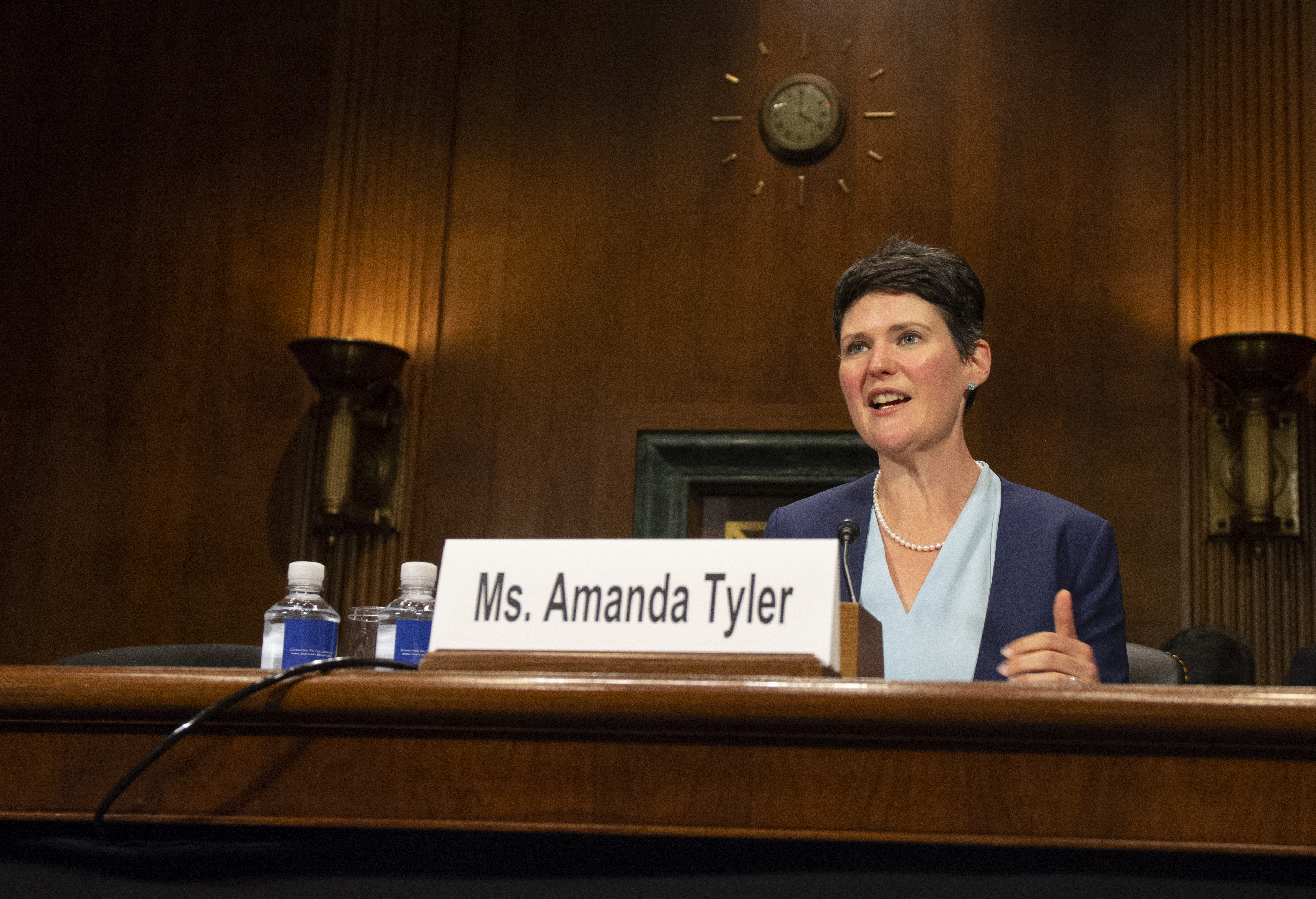 BJC Executive Director Amanda Tyler testifies before the Senate Judiciary Committee's Subcommittee on the Constitution on Oct. 2, 2018